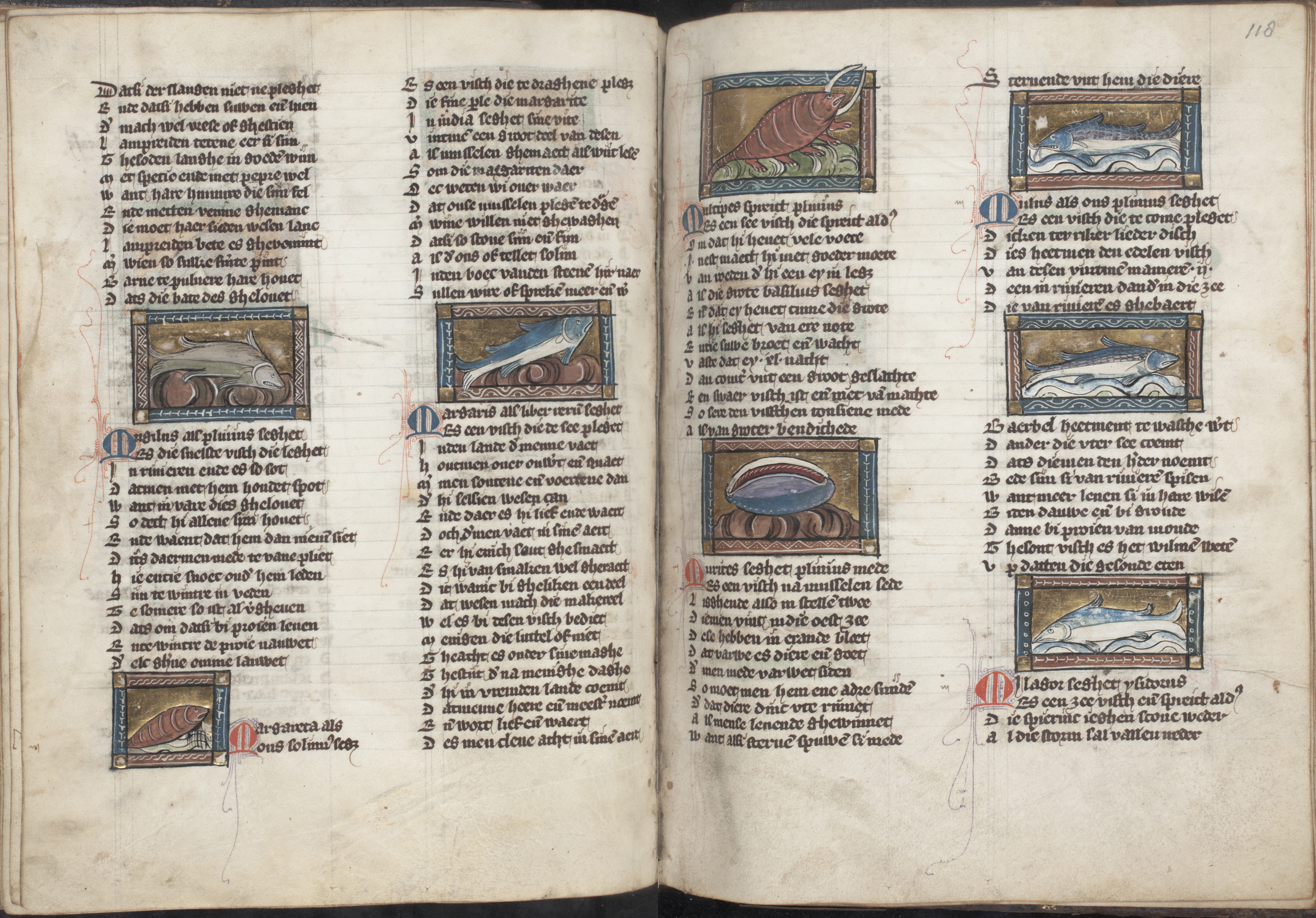 Lefthand side folio 117v and righthand side folio 118r from Der naturen bloeme (KB KA 16) by Jacob van Maerlant Miniatures on the left folio 117v Mugilus (grey mullet) Margareta (pearl-oyster) Margaris See these miniatures on the website of the KB: Mugilus - Margareta - Margaris Miniatures on the right folio 118r Multipes Murices (shellfish yielding a purple dye) Mulus Mulus Milagor See these miniatures on the website of the KB: Multipes - Murices - Mulus - Mulus - Milagor